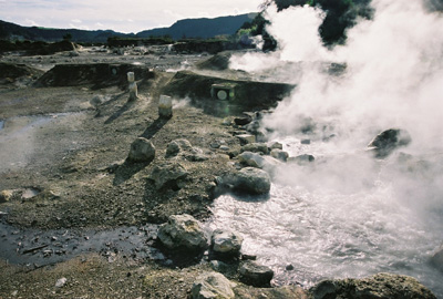 Hot springs in Furnas, Sao Miguel Island, Azores Photograph taken in December 2002 by Henryk Kotowski and released under the GFDL terms